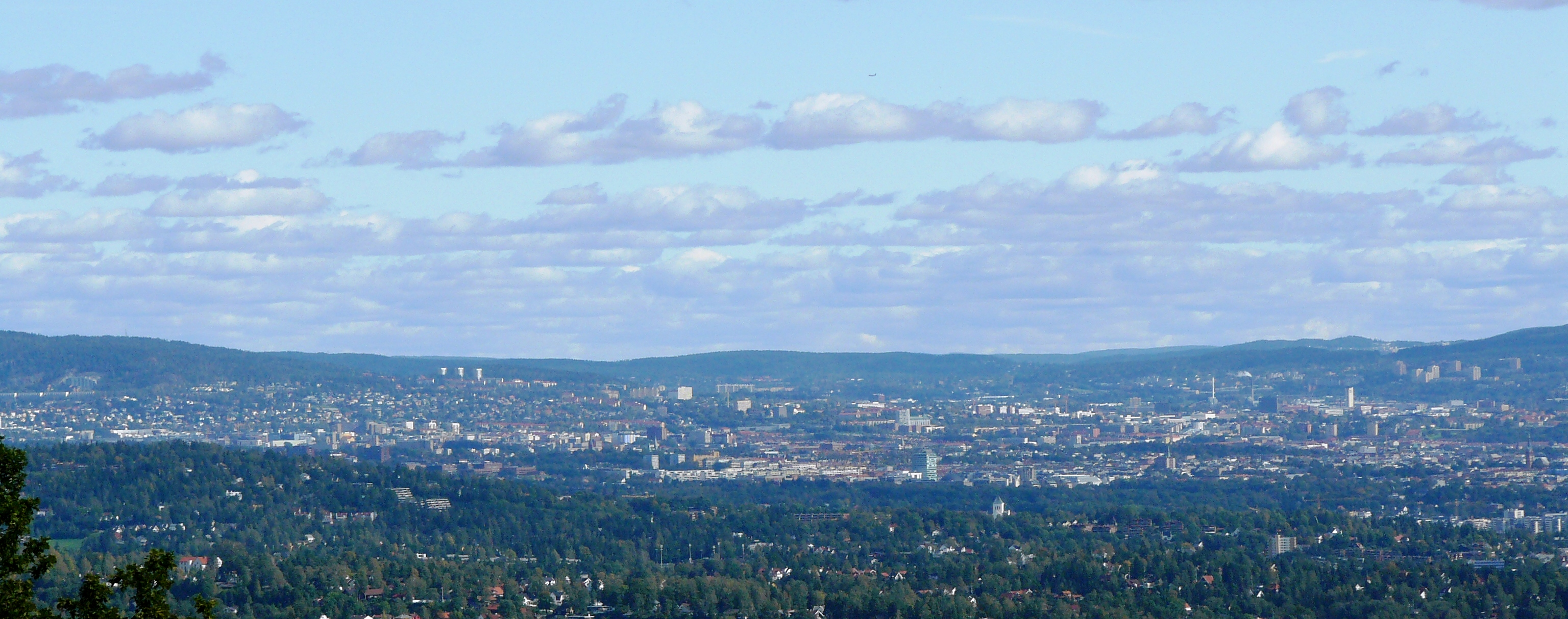 Groruddalen in Oslo, Norway